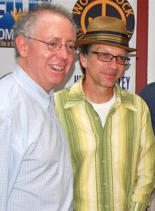 Writer/producer James Schamus, Ron Nyswaner (screenwriter, "Philadelphia"), director Ang Lee, and Woodstock creator Michael Lang